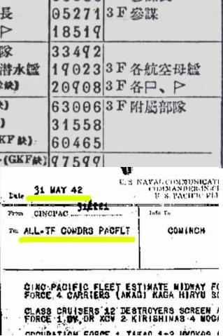 The Japanese Code JN25 - Translate